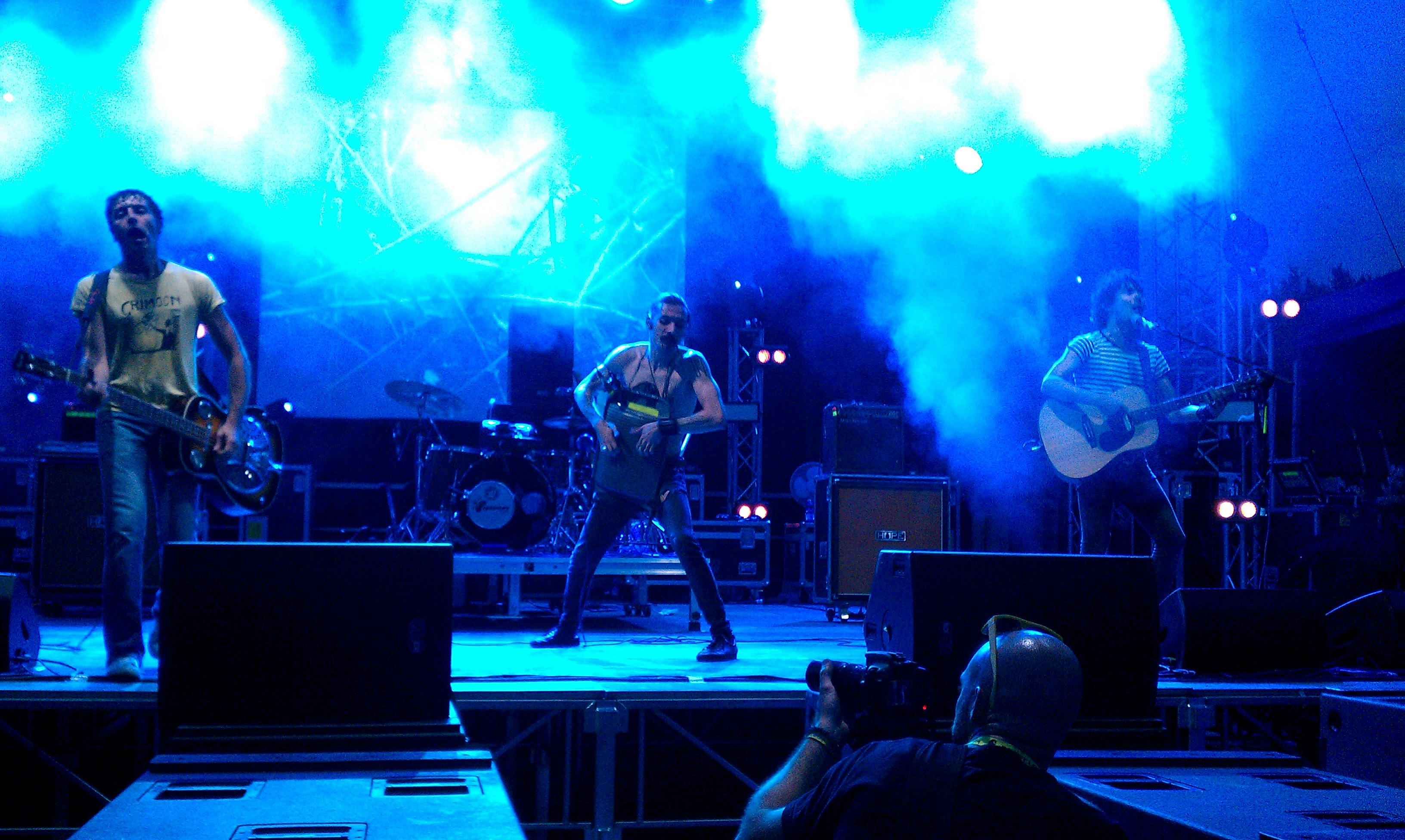 The Zen Circus at the Albizzate Valley Festival, Albizzate, Italy.